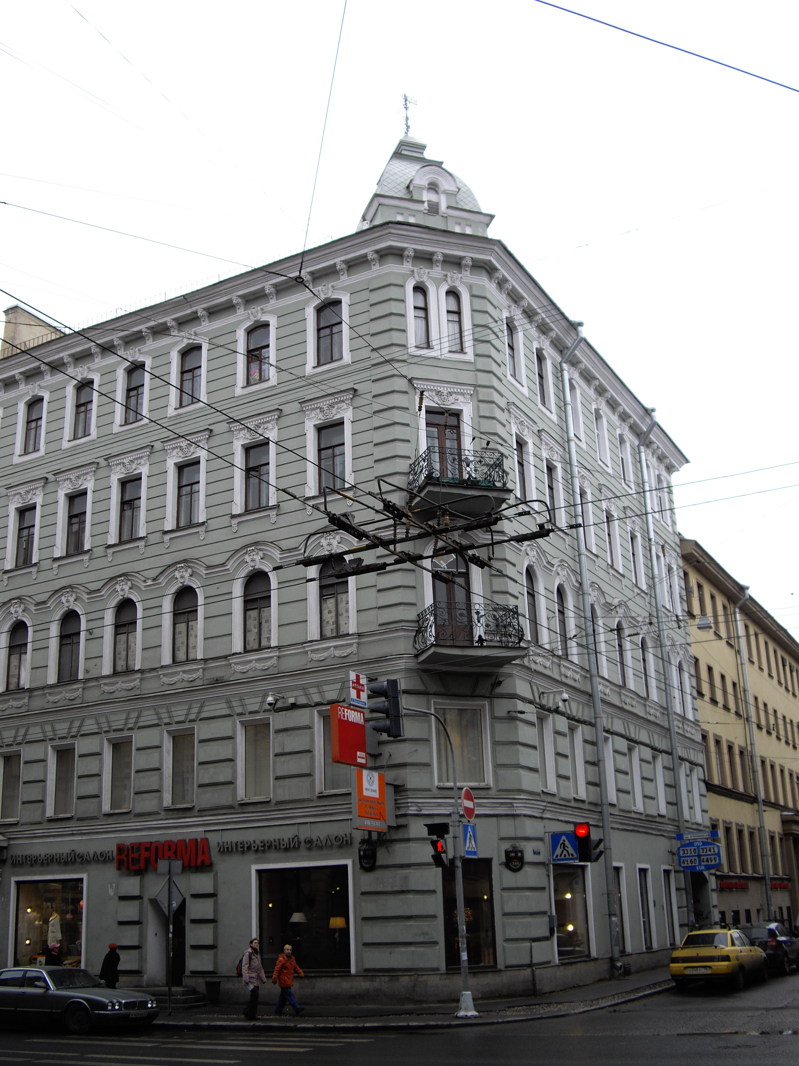 61, Bolshoy Prospect of the Petrograd Side - 3, Barmaleeva street (Saint-Petersburg, Russia). Project by M. Rosensohn, 1901